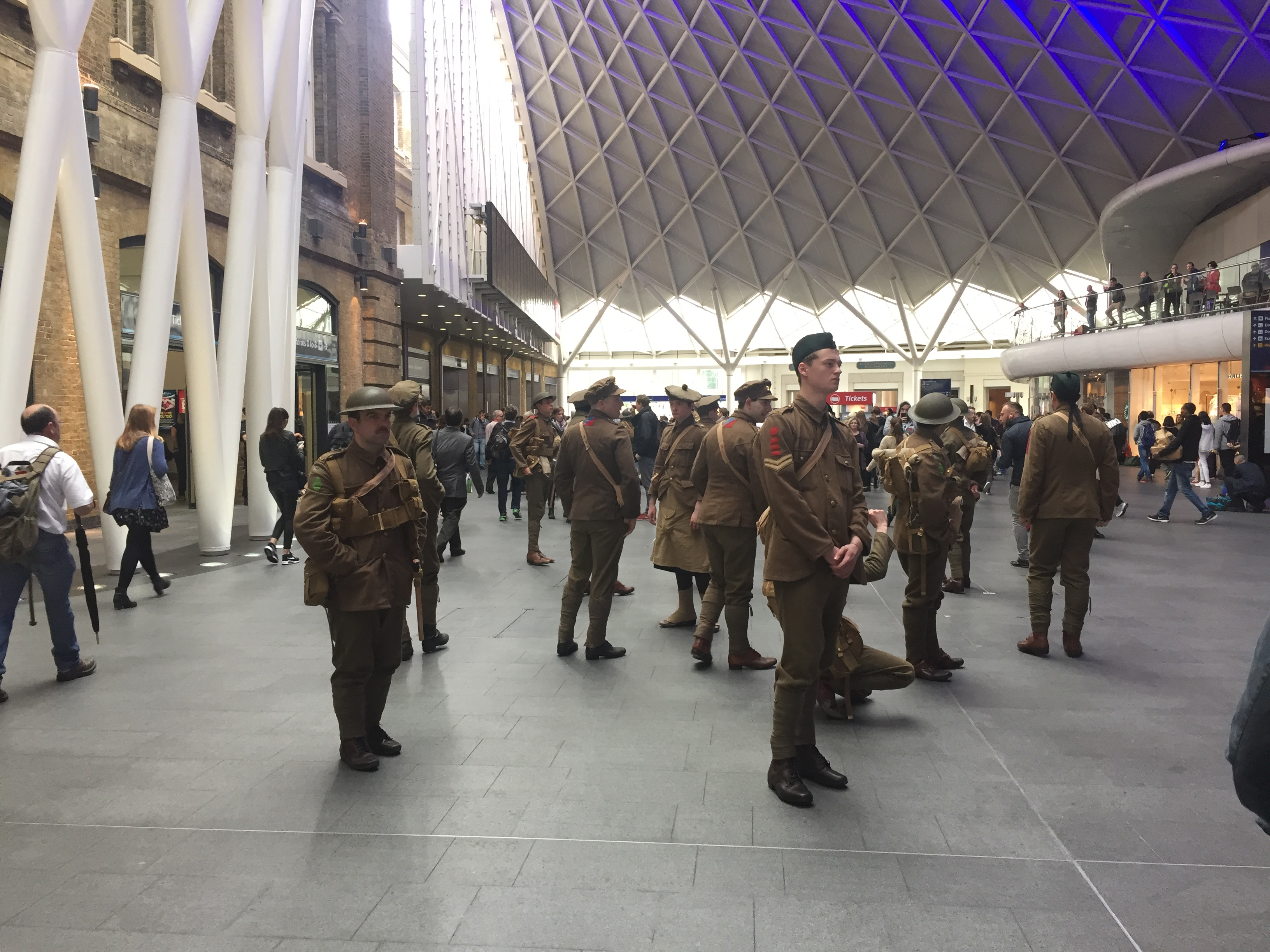 Volunteers dressed as British soldiers commemorate the Battle of the Somme at King's Cross Station, as part of the #wearehere commemoration